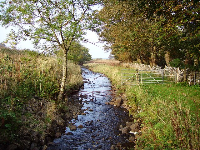 Sleadale Burn Having reached the flat land at the foot of Gleann Oraid, the Sleadale Burn passes Talisker House.